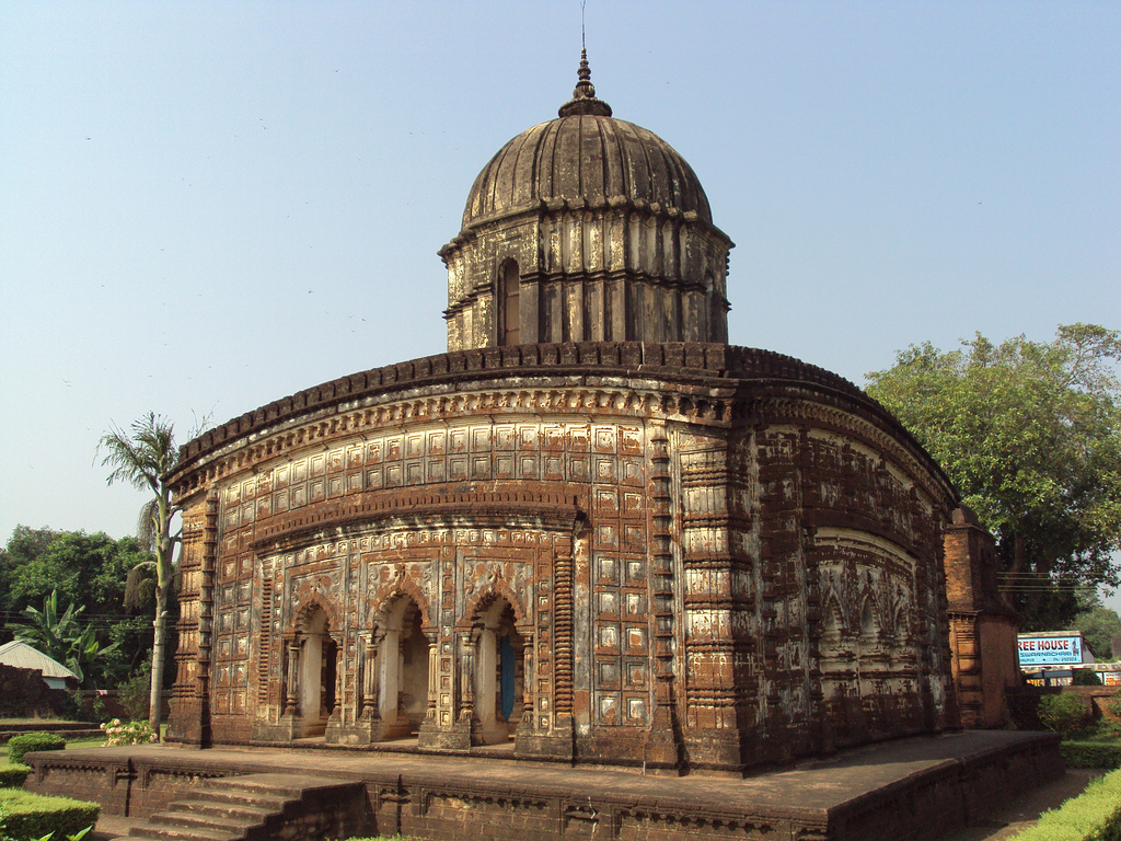 Lalji Temple in the city of Bishnupur, West Bengal, India.